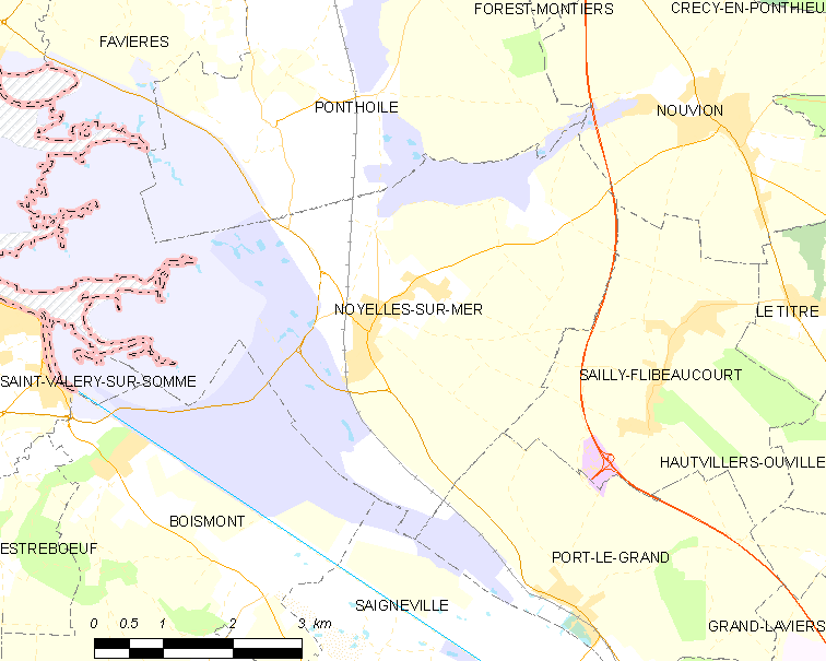 Map of French municipality Noyelles-sur-Mer